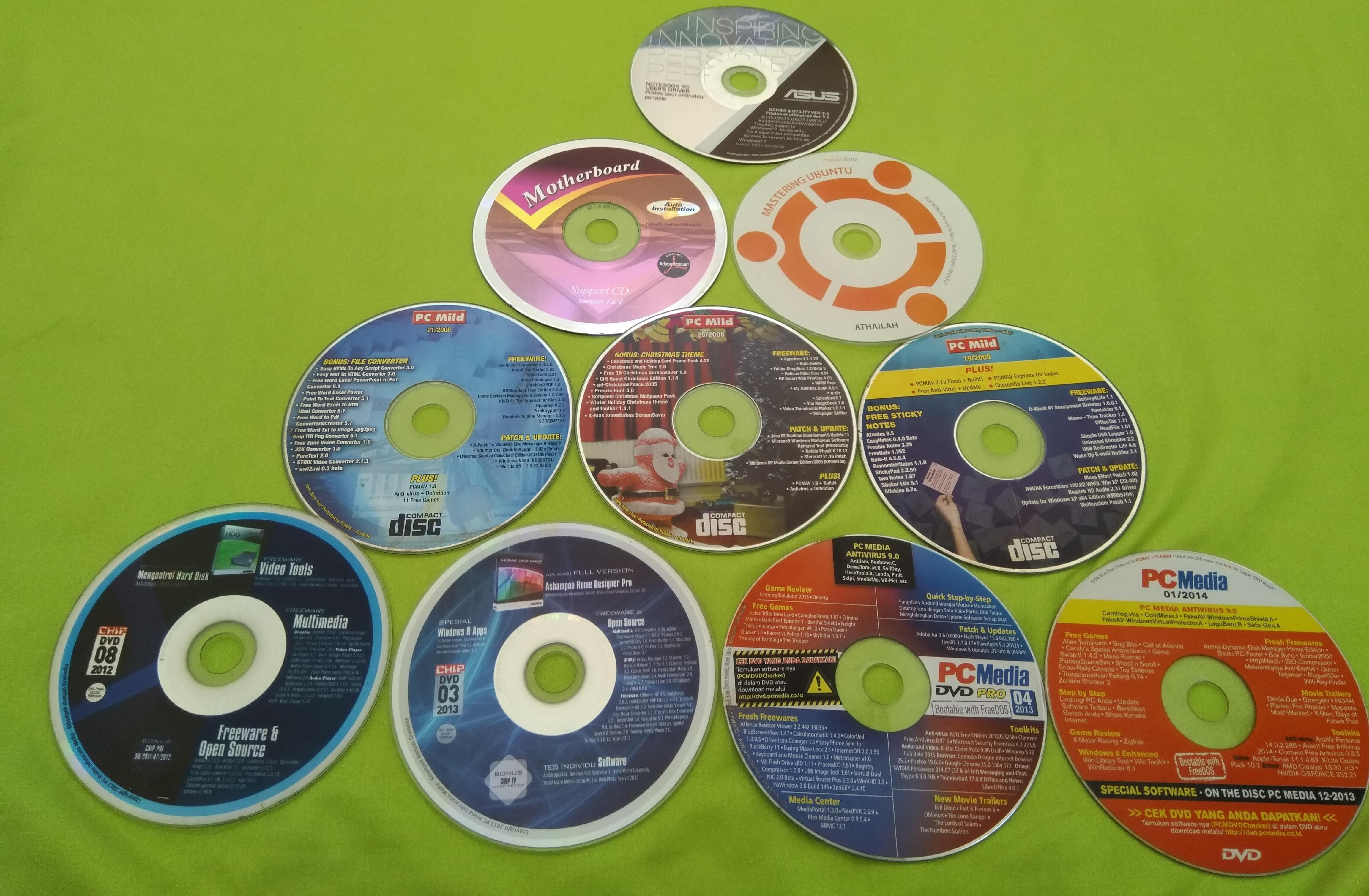 Collection of covermount CDs and DVDS from computer magazines in Indonesia